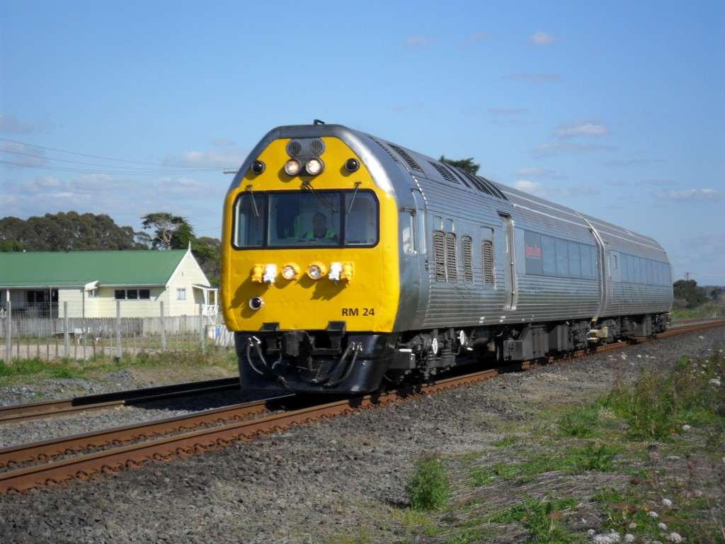 Silver Fern railcar RM 24 on an excursion from Hamilton to Auckland on 9 September 2011, the opening day of the Rugby World Cup 2011